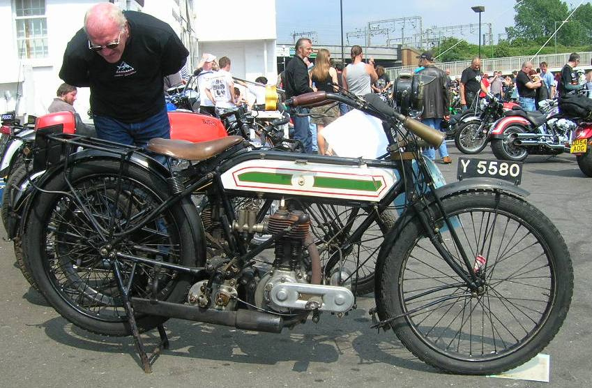 Taken at London's Ace Cafe 2007